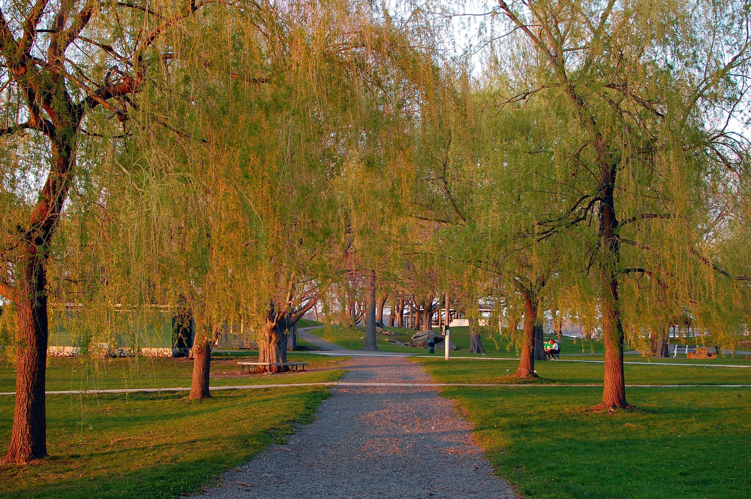 A path at the Salem Willows, Salem, Massachusetts. The Willows were planted to calm patients recovering at a nearby smallpox hospital. Next, the park became an amusement park, and was eventually dismantled, but the willows remain today.